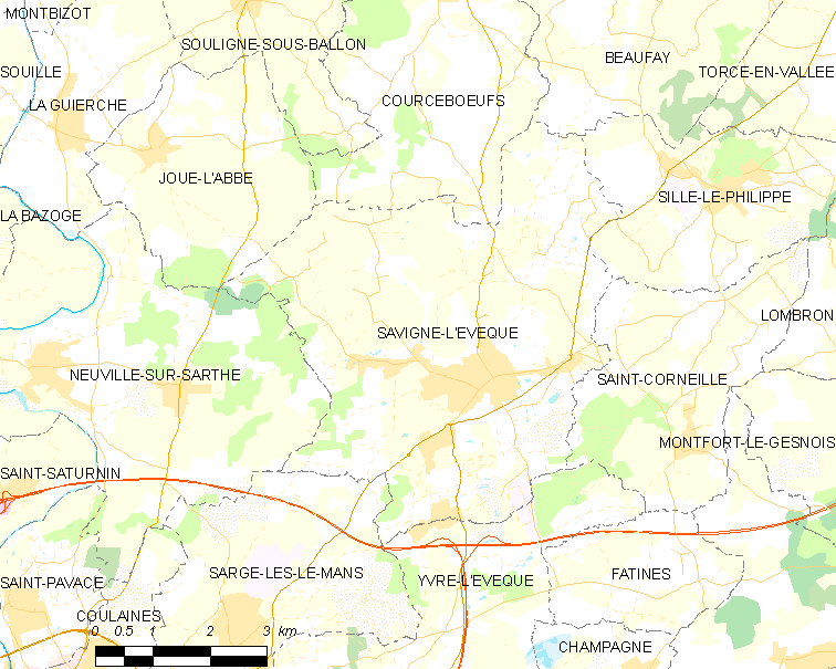 Map of French municipality